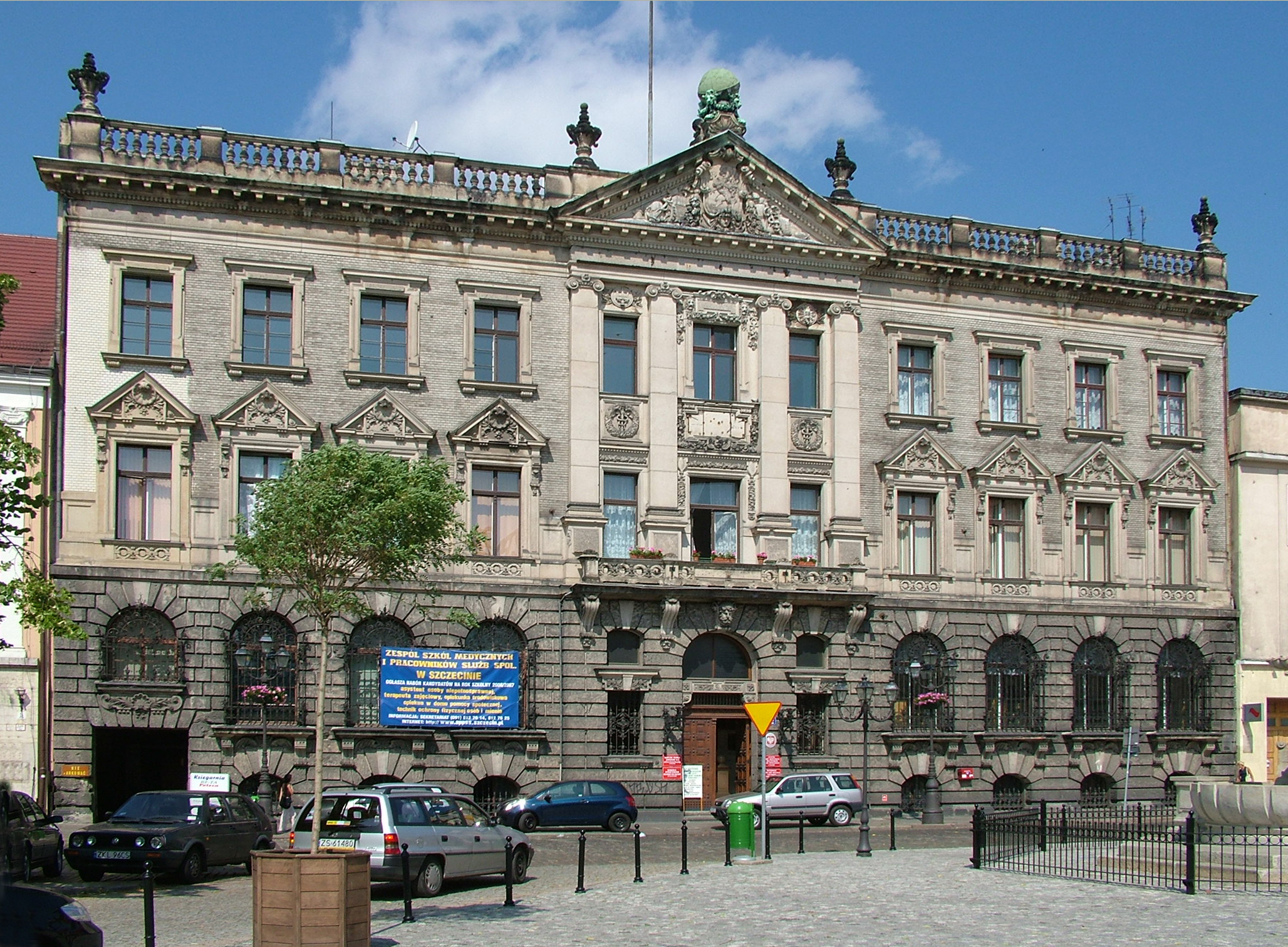 Grumbkow's Palace on White Eagle square in Szczecin.